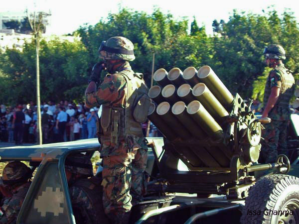 Royal Jordanian Army AB-19 in a military parade in Amman.